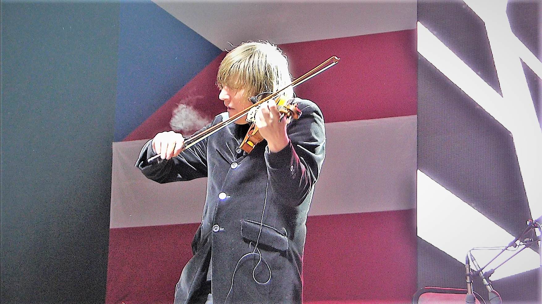 Lajkó Félix and Operentzia (band). Várkert Bazár, Budapest, Central Europe.